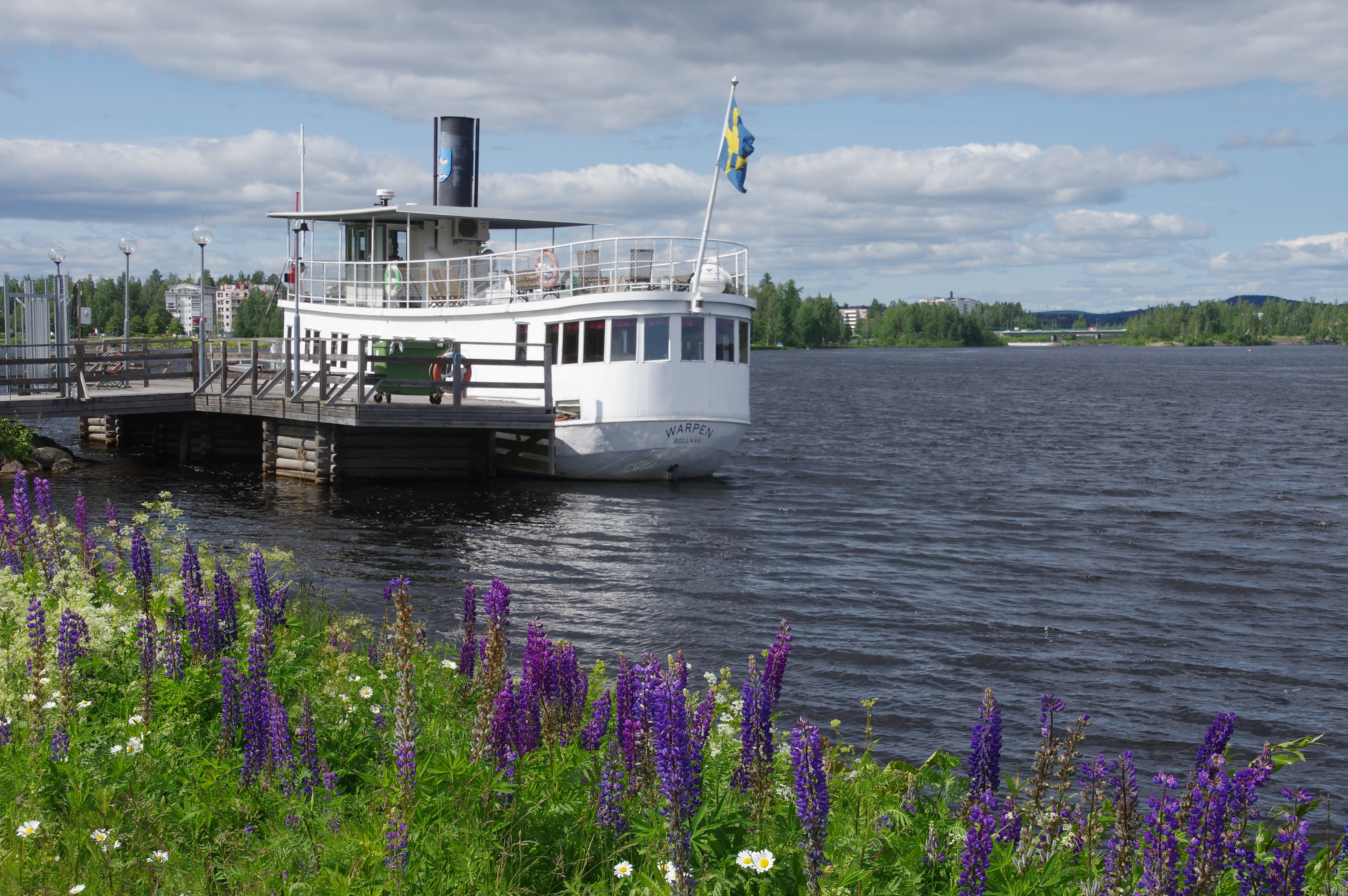 The steamboat SS Warpen is registered in Bollnäs.